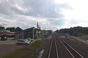 Kewanee station in August 2015